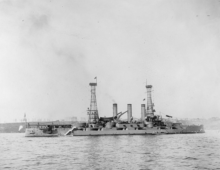 (Battleship # 19) Off New York City during the Fleet Review, 3 October 1911.